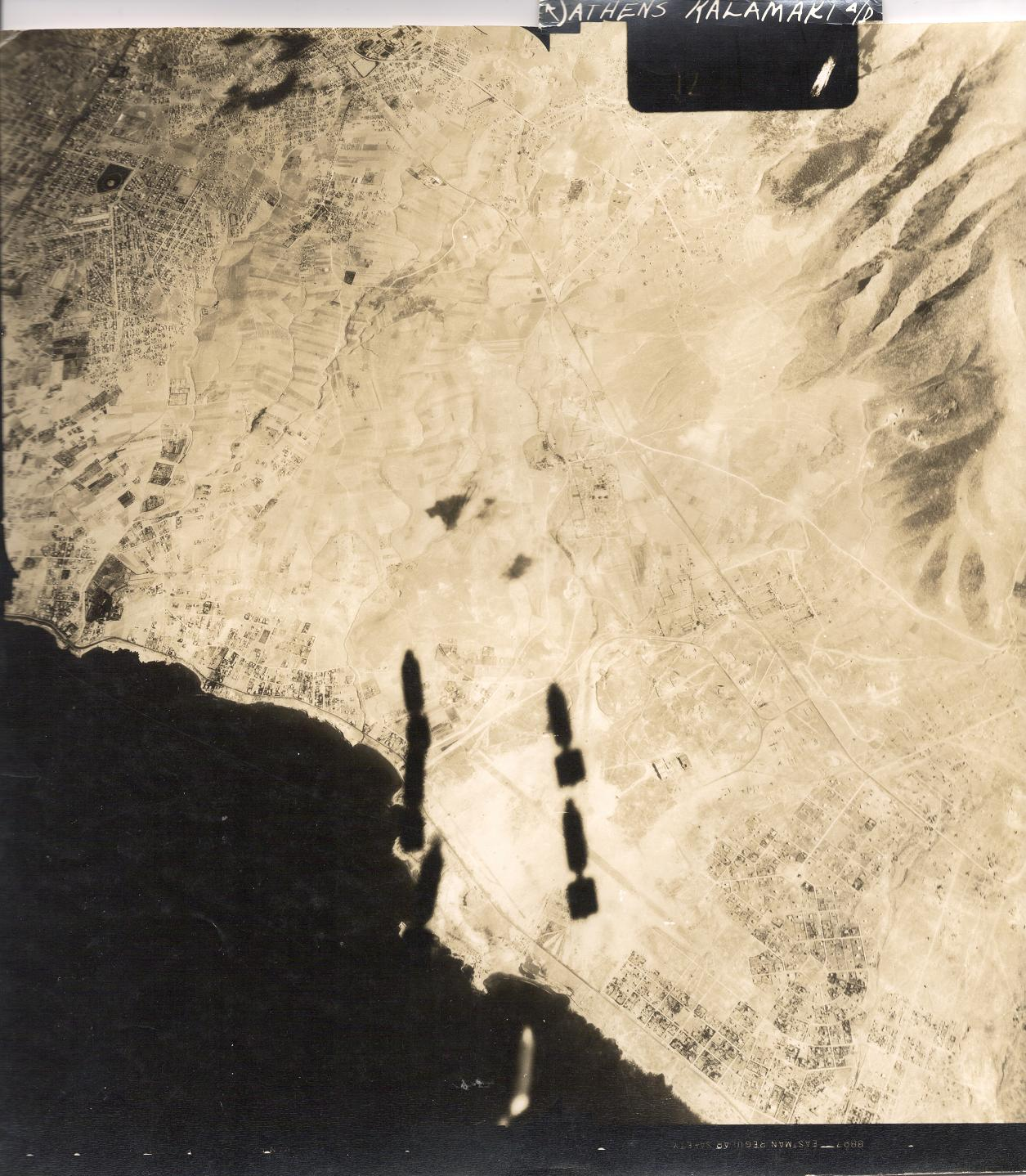 Author: My father (B-17 Pilot) A bomb drop photo from my father's B-17 flying fortress AAF serial number 42-31836 (named "Pig Chaser") in the 463rd Bombardment Group on September 15th,1944 over the Kalamaki Airfield.At that time it was being used by the German Luftwaffe to evacuate their troops from Greece with Ju-52 transport planes